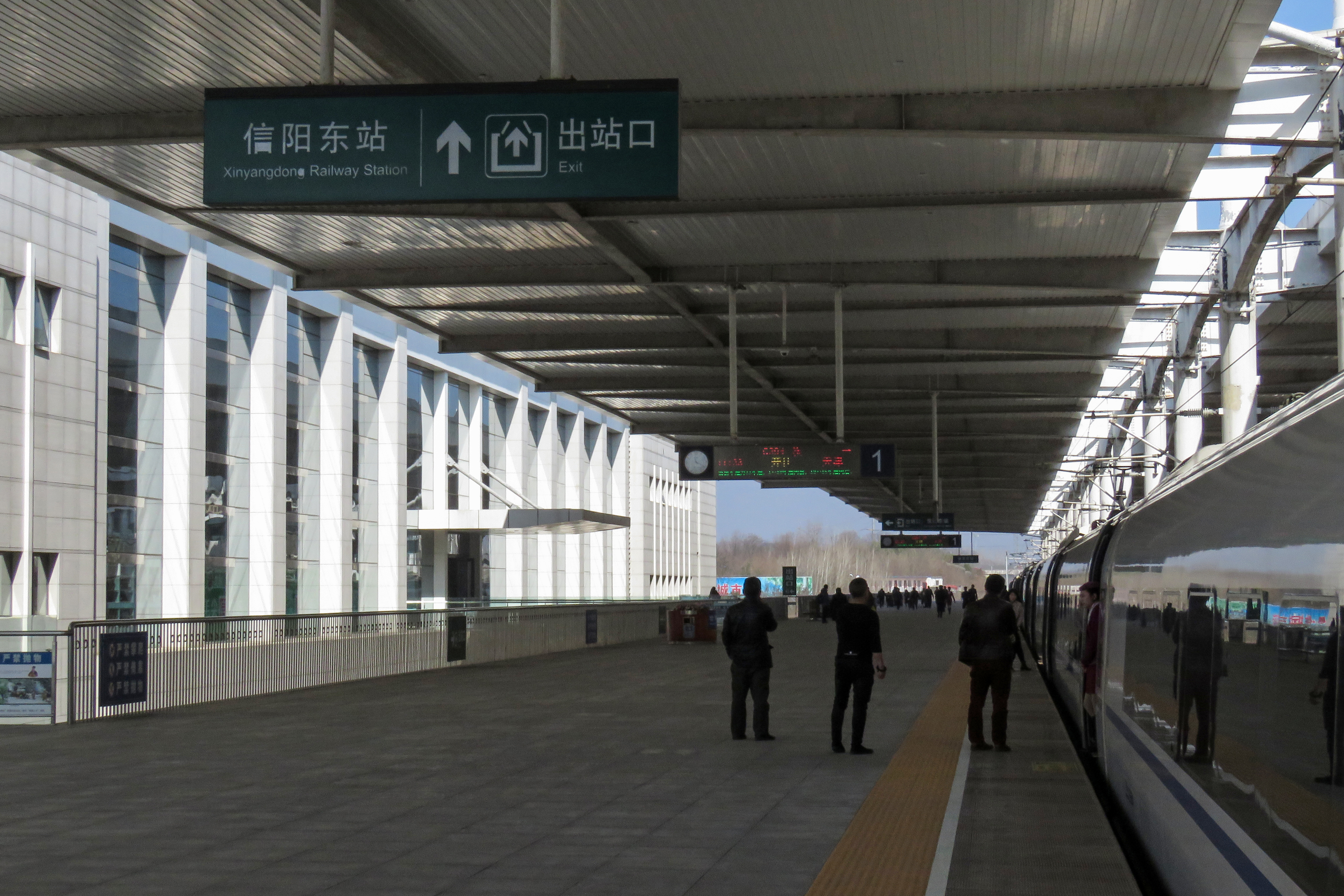 G294 stops at nearly every station, but...